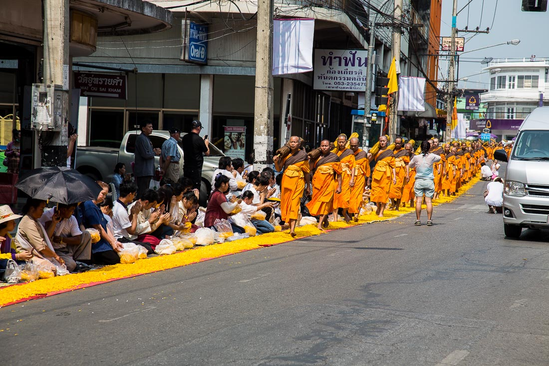 Ceremonies in Buddhism, Chiangmai